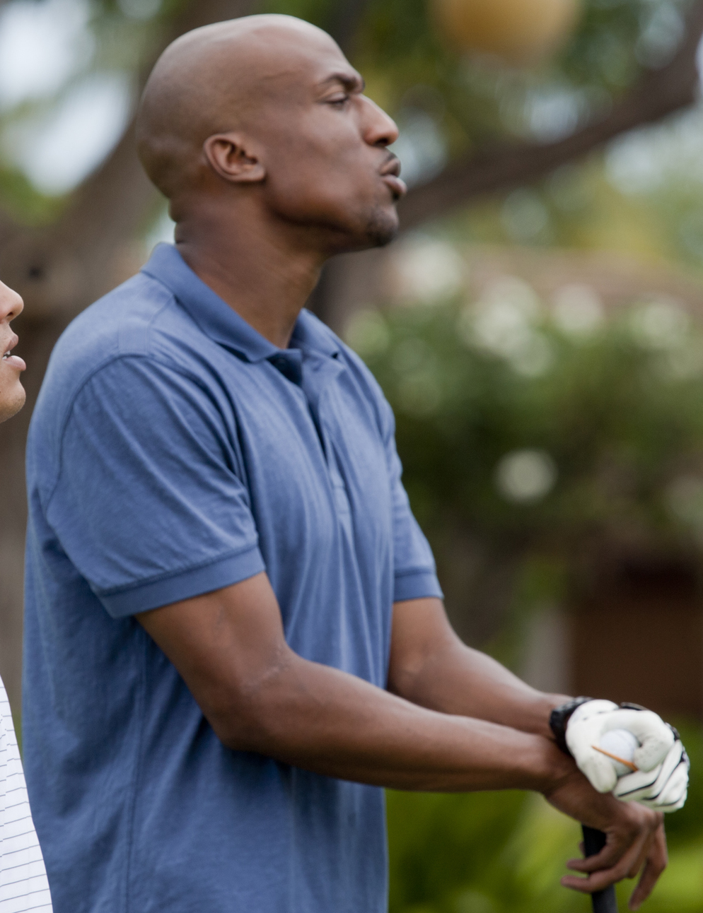 120611-N-FK977-322 wailea-makena Maui, Hawaii (June 10, 2012) Inelegance Specialist 2nd class Armando Rodriguez (Left) from the U.S. Pacific Fleet staff (COMPACFLT), and Ashley Lelie (right) a retired National Football League (NFL) wide recover both stand together discussing their golf game during the June Jones Foundation Celebrity golf Classic. Rodriguez was selected by his command to attend this event and was paired with Lelie to play in the tournament. Roger Staubach, starting quarterback of the Navy football team in 1962 and Heisman Trophy winner and legendary Hall of Fame former quarterback for the Dallas Cowboys from 1969, Sponsored four sailors from COMPACFLT to attend the golf classic at no cost to them selves. The June Jones Foundation is a nonprofit foundation that holds the annual Celebrity Golf Classic fund raising event for several charitable organizations that improve the lives of needy families and children with life-threatening illnesses like the organization HUGS. HUGS is a group that is dedicated in providing support and enhancing the quality of life for Hawaii's seriously ill children and their families. (U.S. Navy photo by Mass Communication Specialist 1st Class Shawn Gentile/Released).